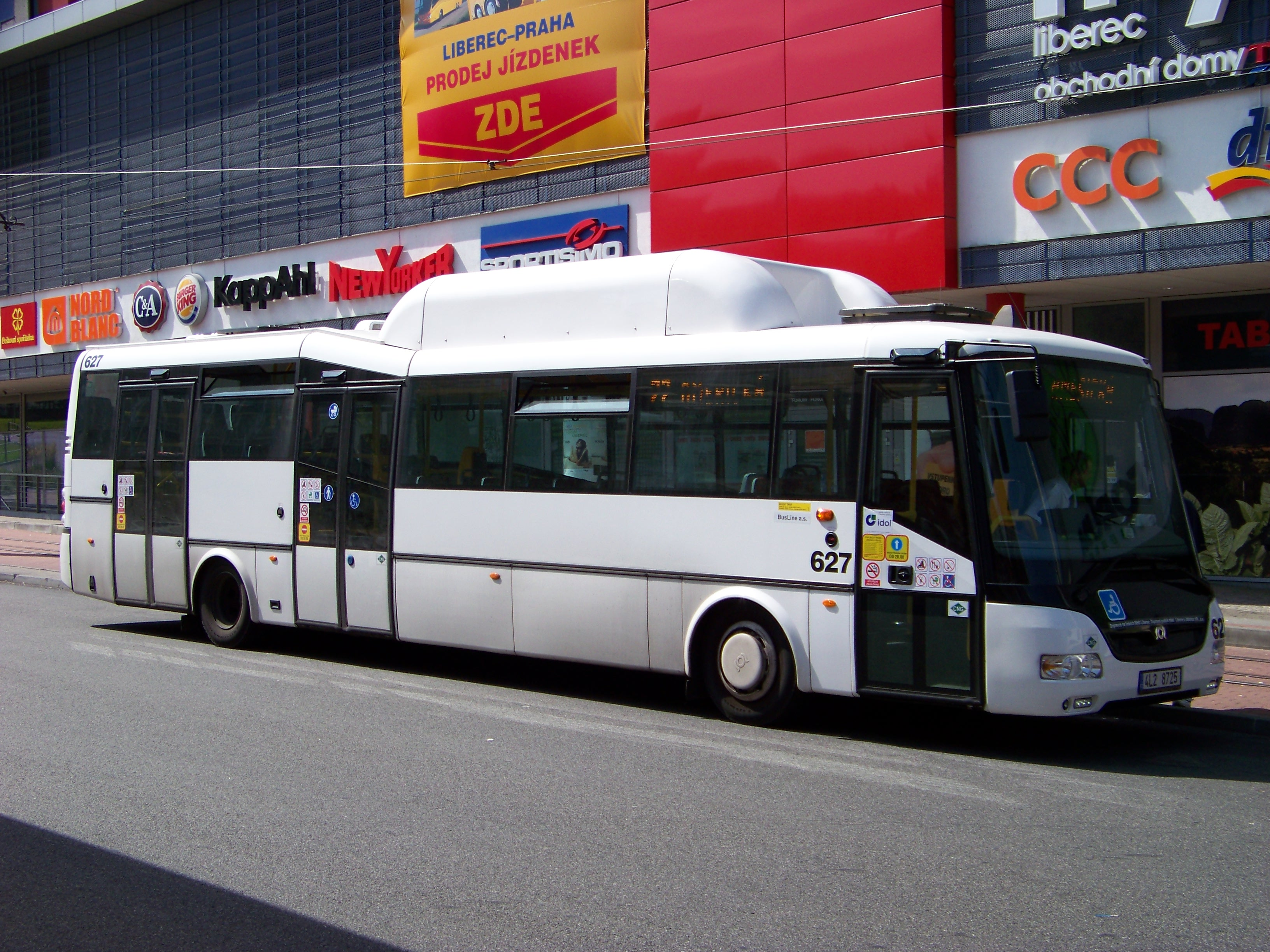 Liberec IV-Perštýn, Liberec Region, the Czech Republic. Fügnerova station, a bus of BusLine.